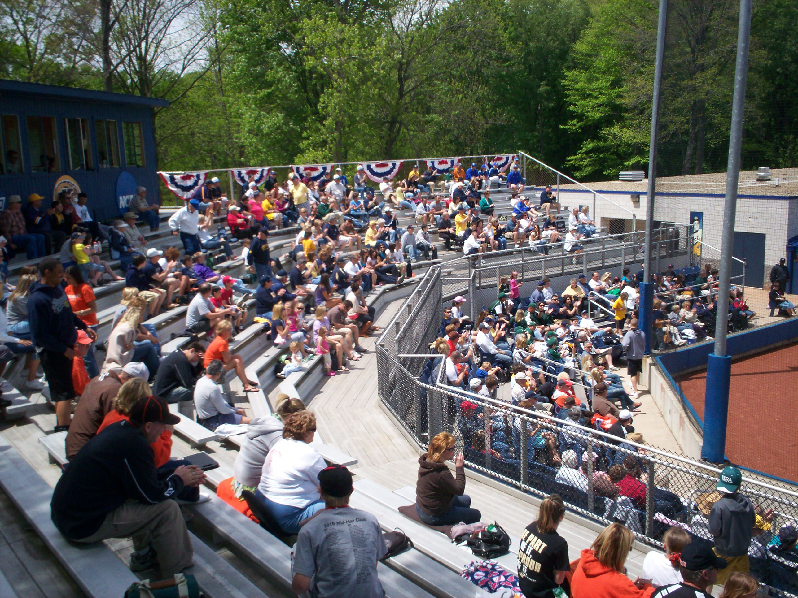 Stands of Schoonover Stadium on the campus of Kent State University in Kent, Ohio. The stadium is home to the Kent State Golden Flashes baseball team and opened in 2005 on the site of the team's previous home, Gene Michael Field.